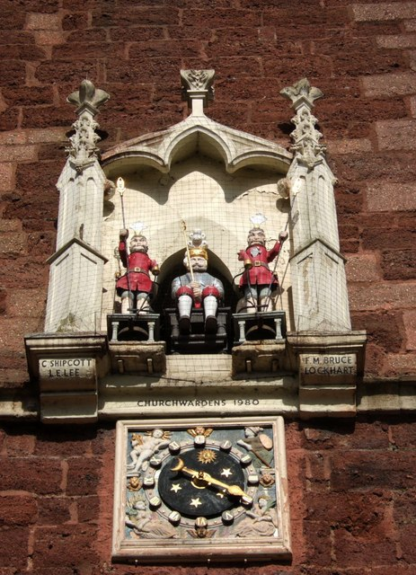 Matthew the Miller and his sons. The clock on St Mary Steps church and the trio of figures above it, which are described in more detail on Genuki . The central figure is a replacement . The four figures in the spandrels of the clock represent the seasons. For a view of the church, see 343824.